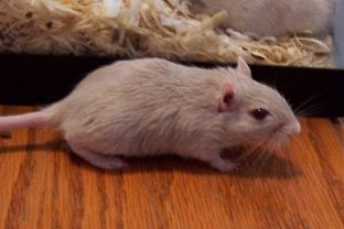 Dove gerbils have light grey fur and red eyes.